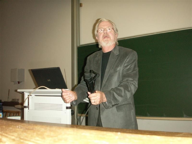 Prof. Dr. Tom Regan